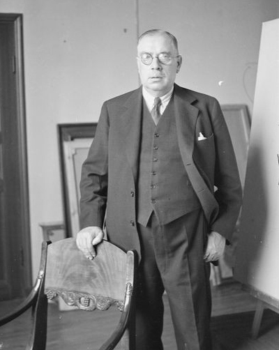 Photograph of the Finnish businessman Einar Ahlman (1872–1937), posing for the painter Eero Järnefelt.